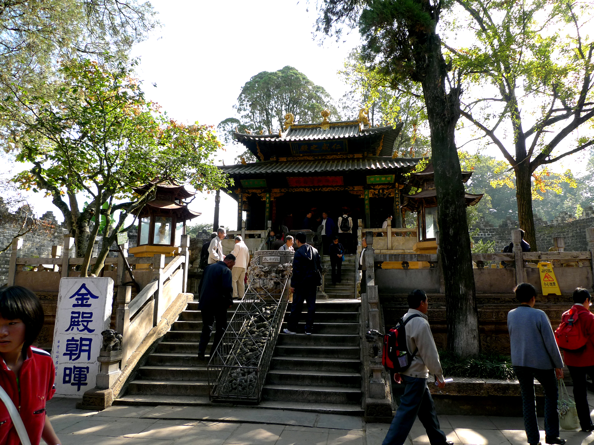 Bronze Hall of the Taihegong Taoist Temple